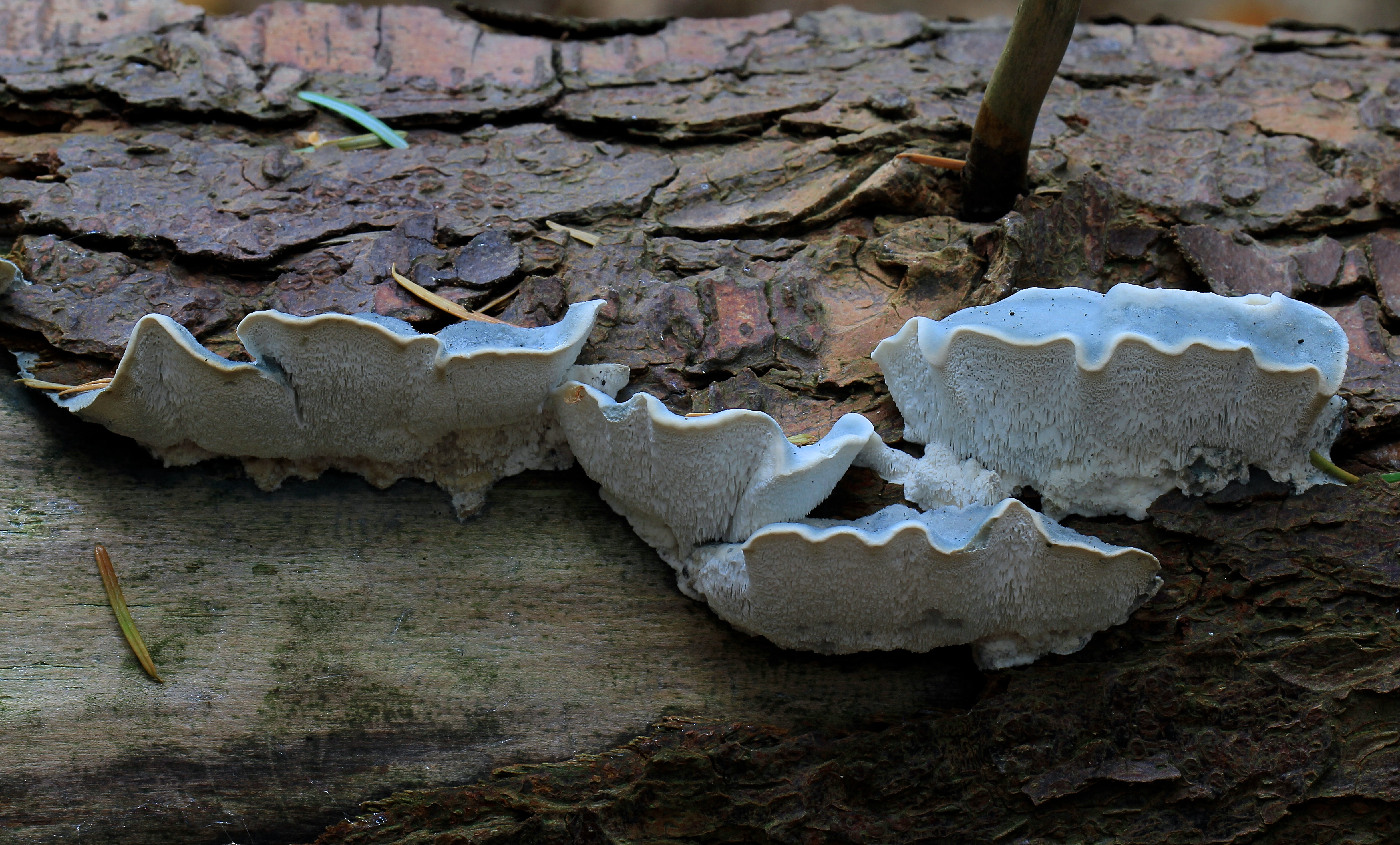 Postia caesia, Conifer Blueing Bracket fungus, growing on a fallen conifer tree in Trent Park, London Borough of Enfield, UK.